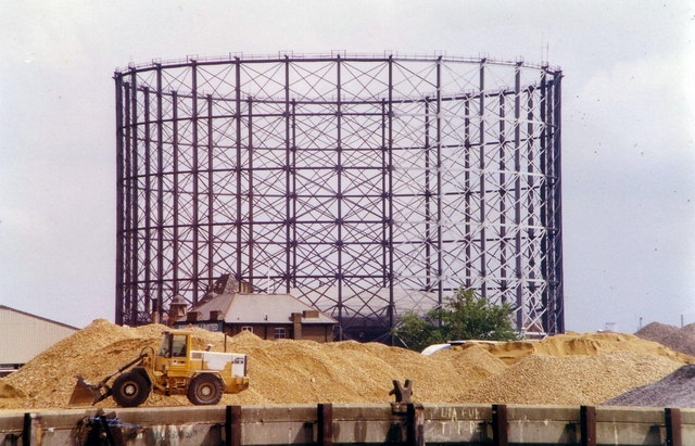 East Greenwich gasometer, Blackwall Lane The 19th century gasometer frame in Blackwall Lane, just south of the tunnel entrance and the Millennium Dome (still to be built when this was taken). The framework made intriguing geometric patterns as we sailed down the river aboard the Thames barge 'Pudge'.